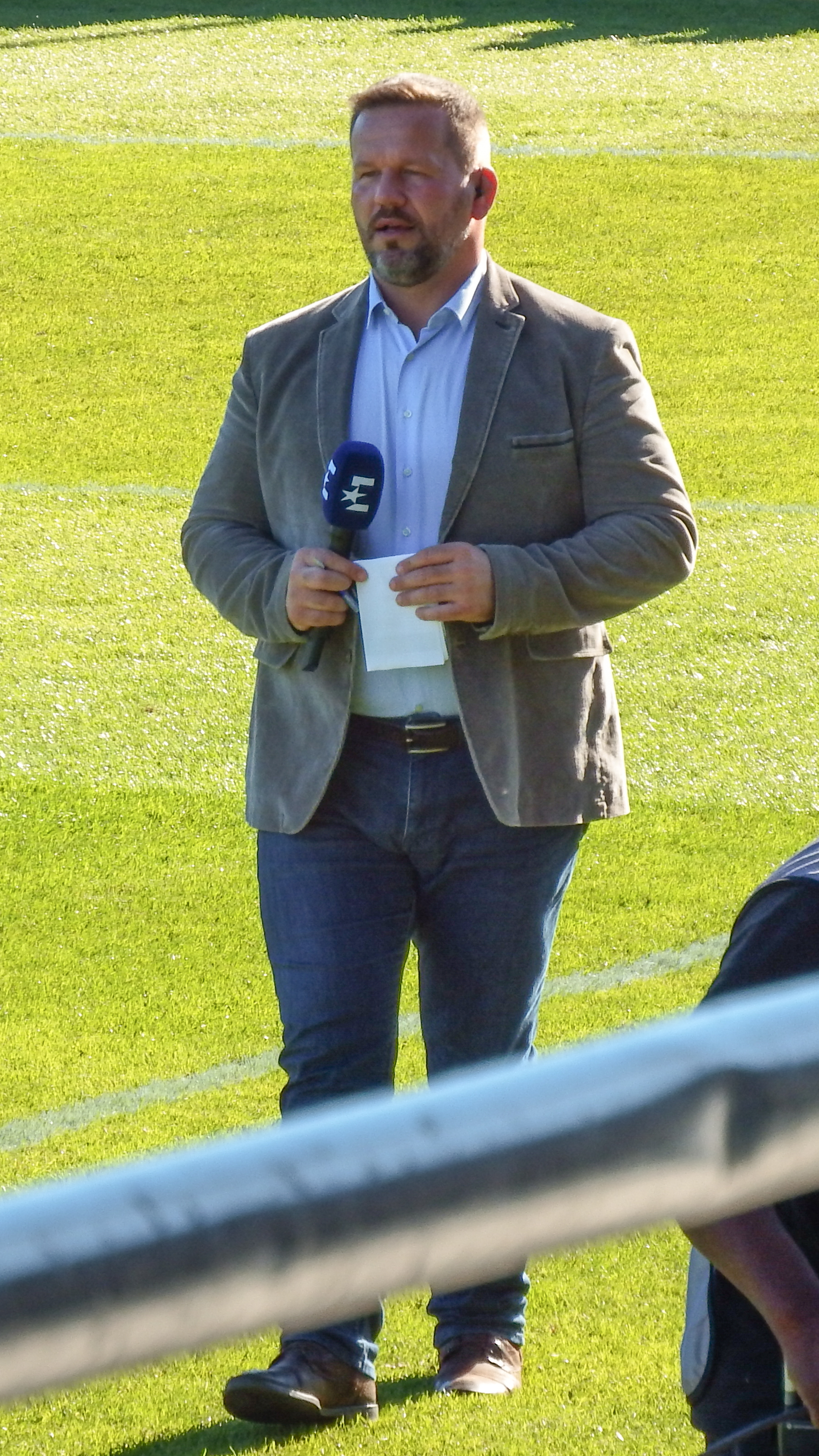 Pro D2 2016-2017 — 30 October 2016, stade Michel-Bendichou. Match between: Colomiers rugby — US Dax